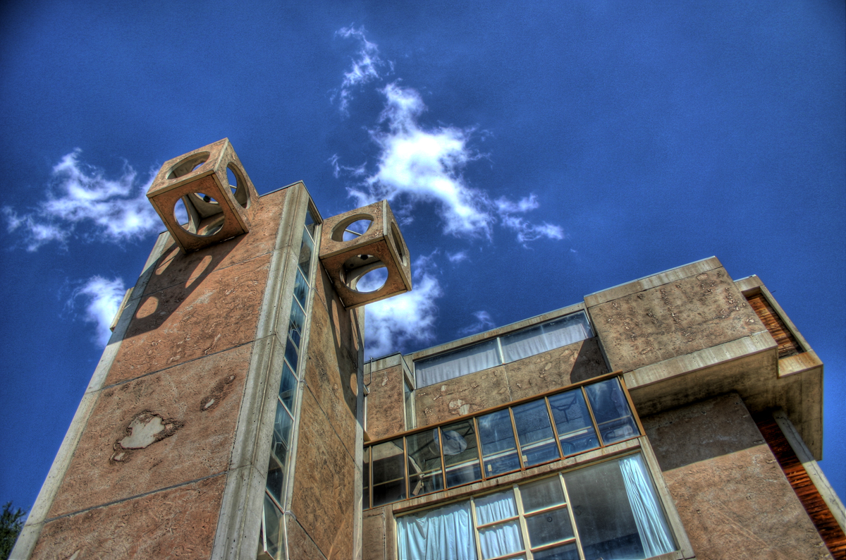 Tower at the Arcosanti experimental town.